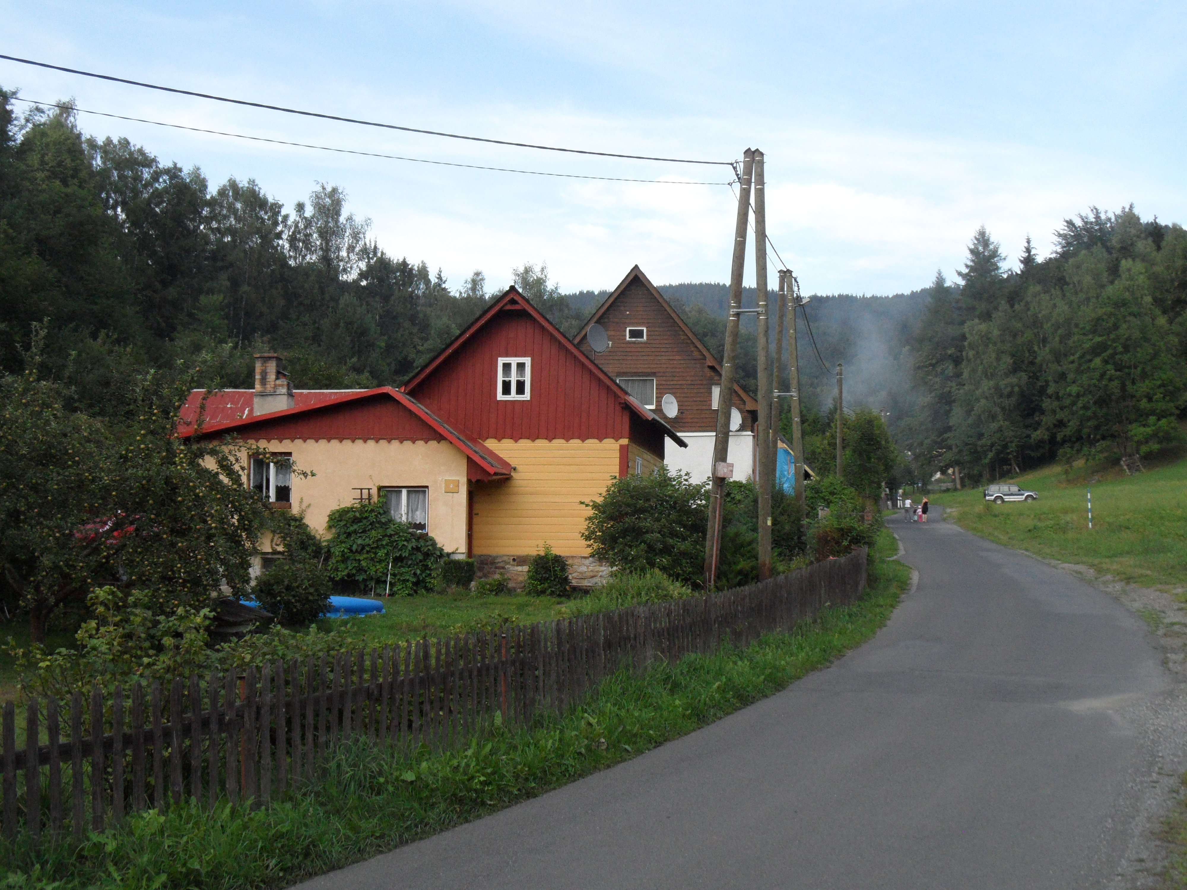 Dětřichov (Jeseník) G. Houses in street Na Mýtince, near Famous tree Tilia cordata. Jeseník District, the Czech Republic.